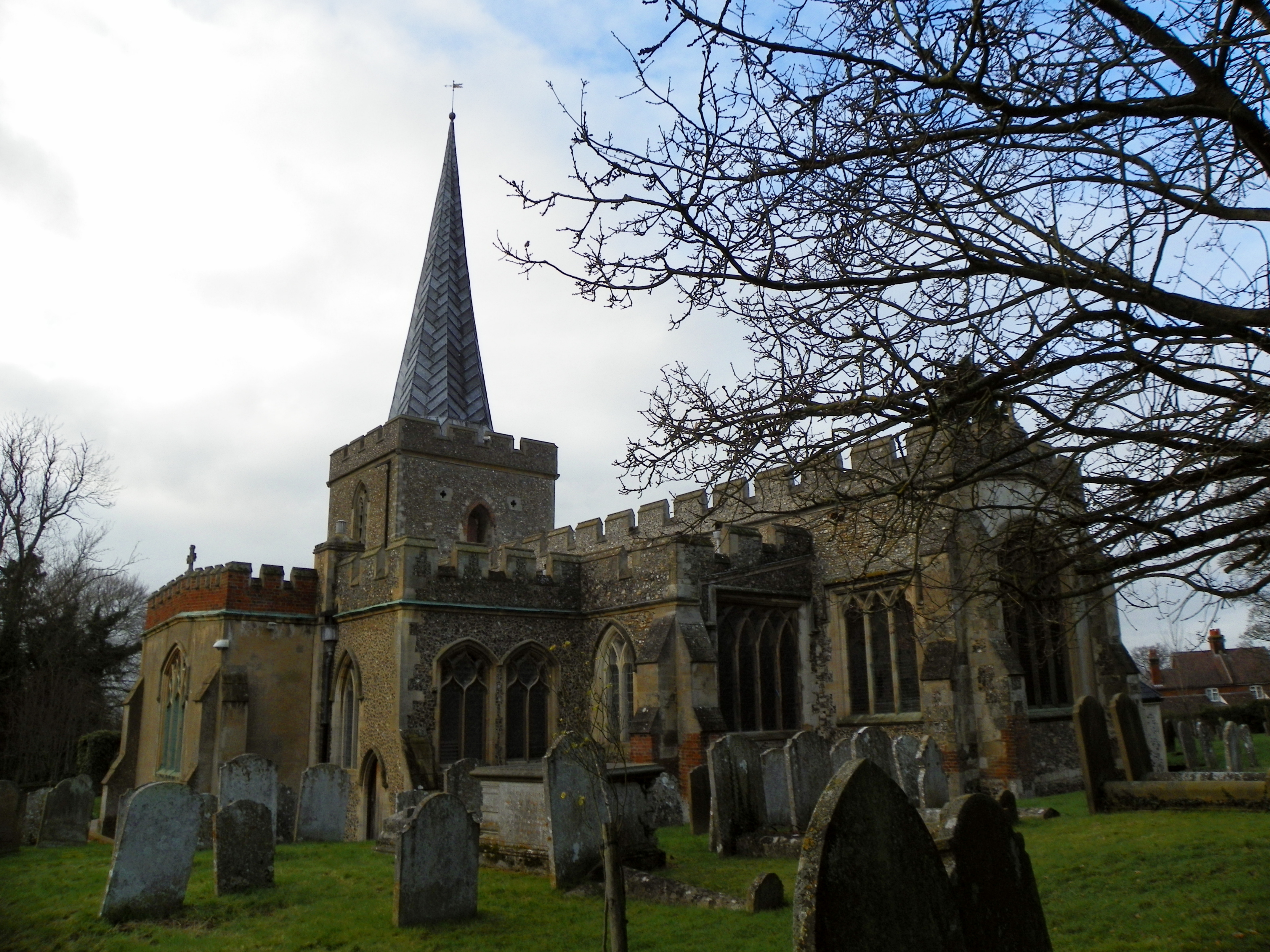 St Nicholas' Church, Stevenage, Hertfordshire. Photographed on 22 January 2014.